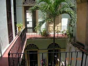 Patio in Casa Particular accommodation in Old Havana, Cuba